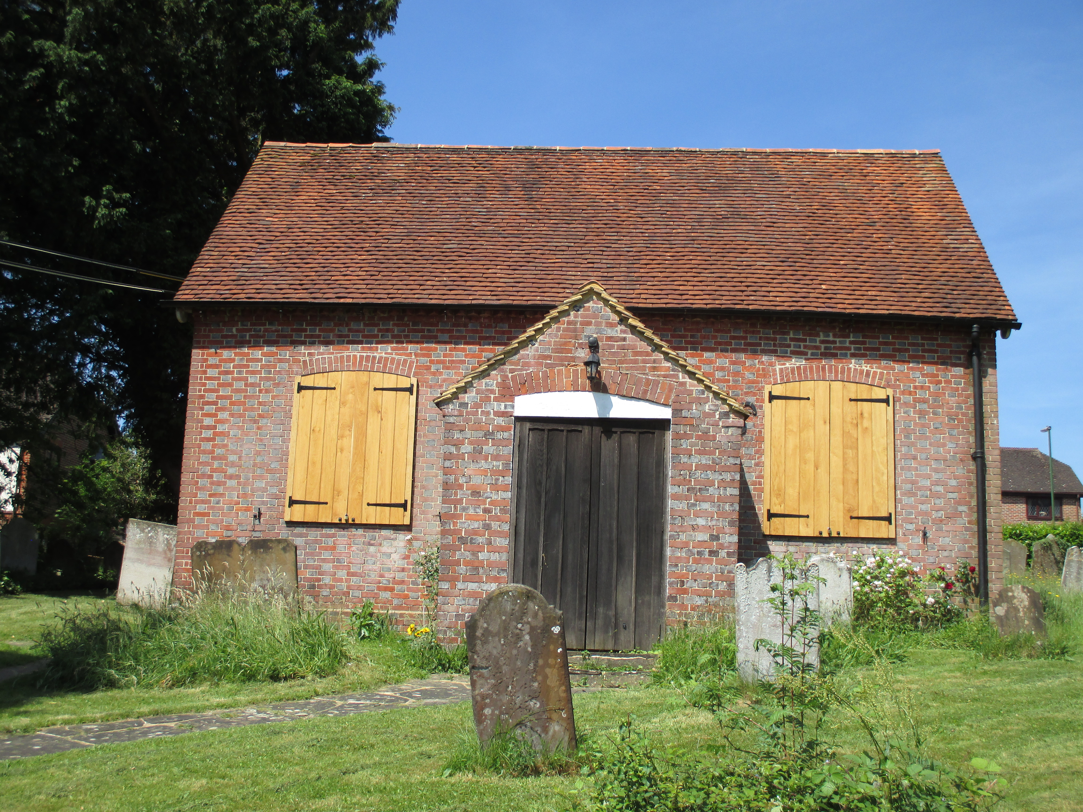 The Unitarian chapel on High Street, Billingshurst, West Sussex, seen from the south-east.